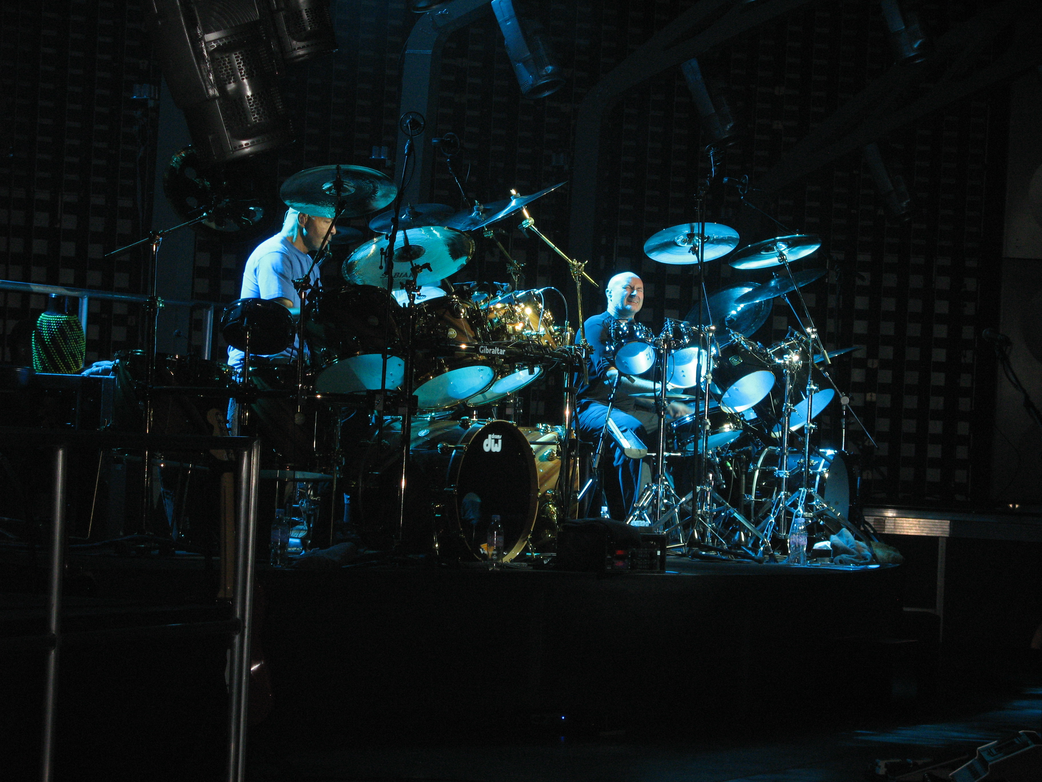 Genesis concert at the Mellon Arena, Pittsburgh, Pennsylvania, USA. Performing a drum duet between Chester Thompson and Phil Collins.